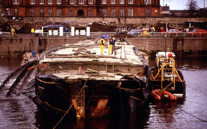 'City of Adelaide' being raised at Govan in 1992 after sinking in 1991